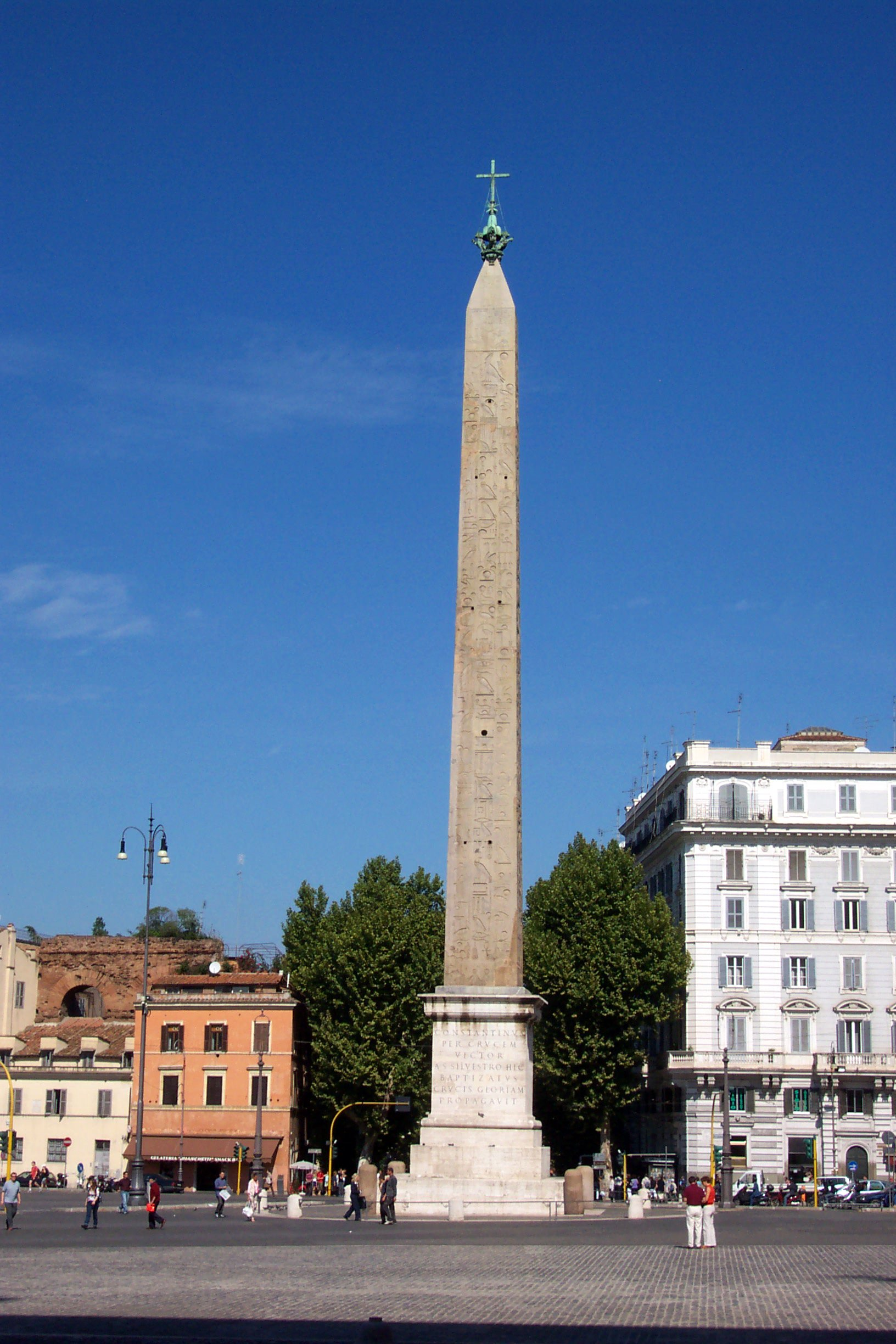 Obelisk in Laterano, Roma, Italy